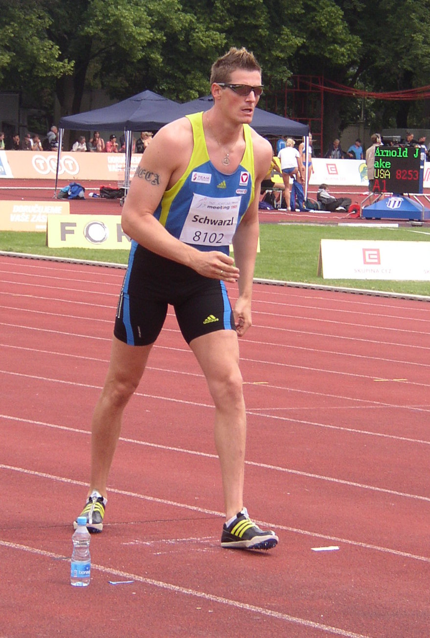 Athlete Roland Schwarzl of Austria prepares for his attempt in long jump during men's decathlon at 4th edition of the TNT - Fortuna Meeting (IAAF World Combined Events Challenge Meeting, Sletiště Stadium, Kladno, Czech Republic, 15 June 2010, 12:54).